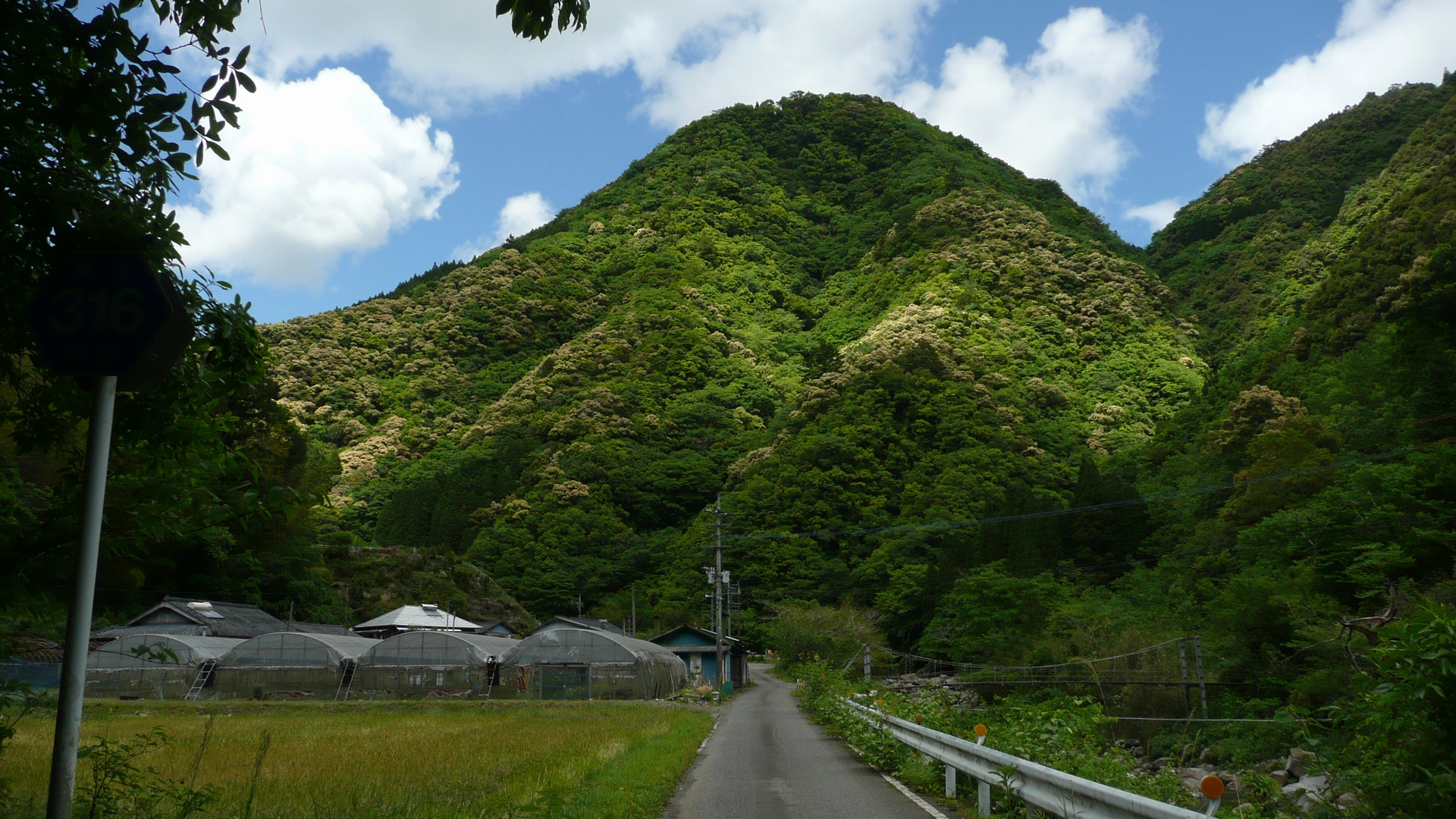 Miyazaki Prefectural Road 316 (Ogawa, Nishimera Village, Japan)